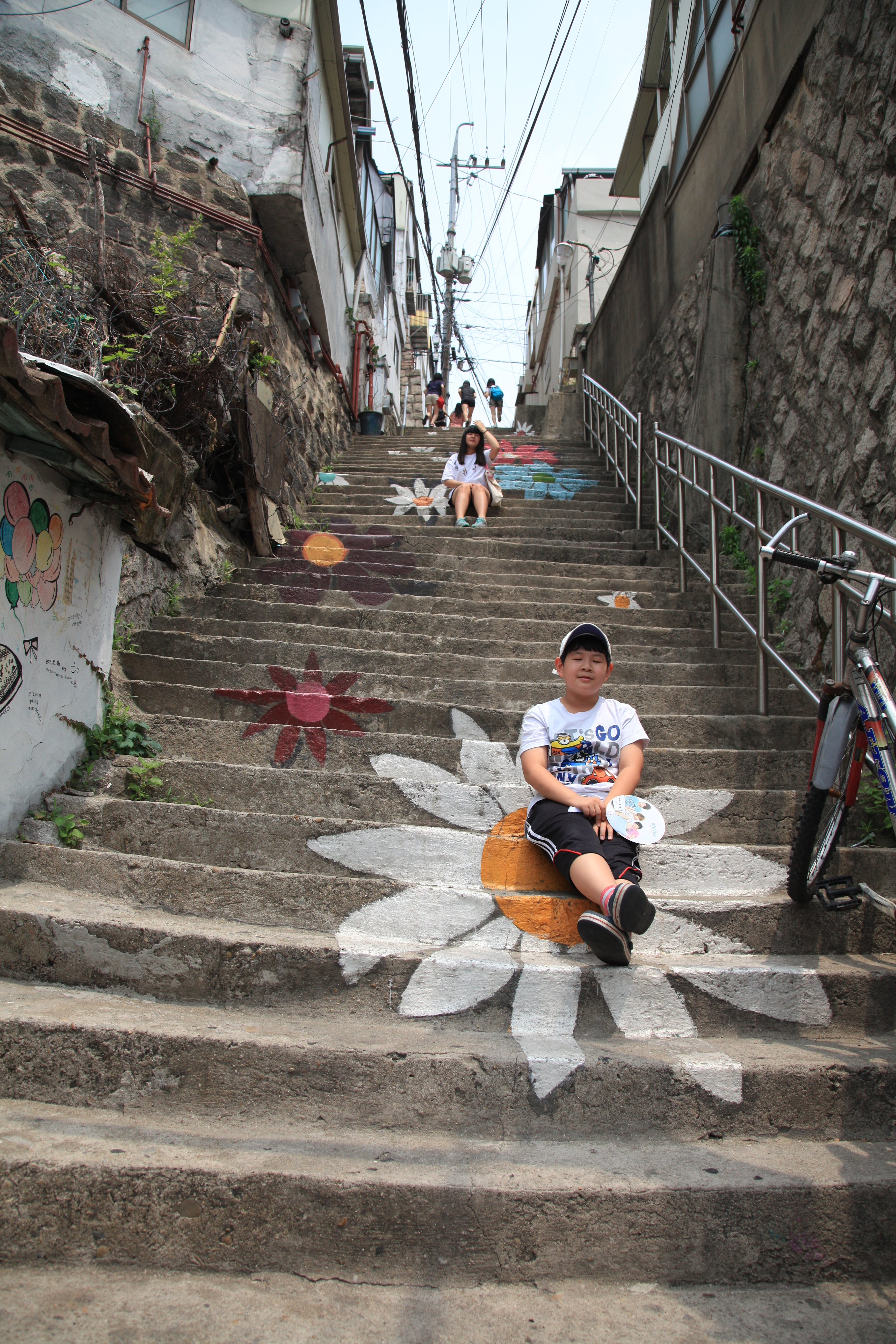 Mural villiage in Ihwa-dong